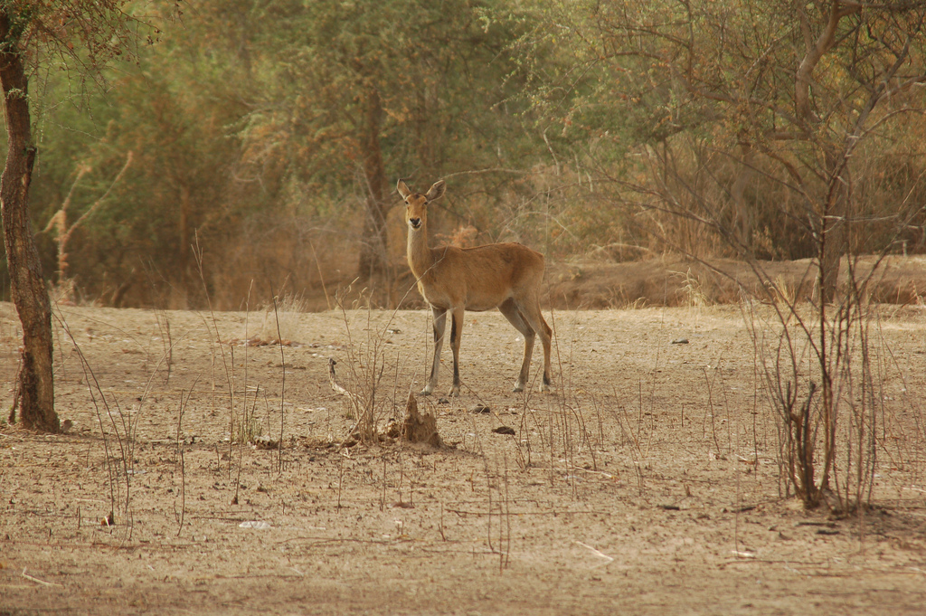 Antelope photographed in the W National Park du Niger. - Identified as Kobus kob kob --Altaileopard (talk) 23:50, 8 July 2010 (UTC)